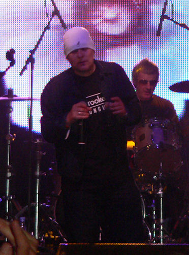 Singer Shaun Ryder and drummer Gary Whelan from british rock band Happy Mondays on stage.